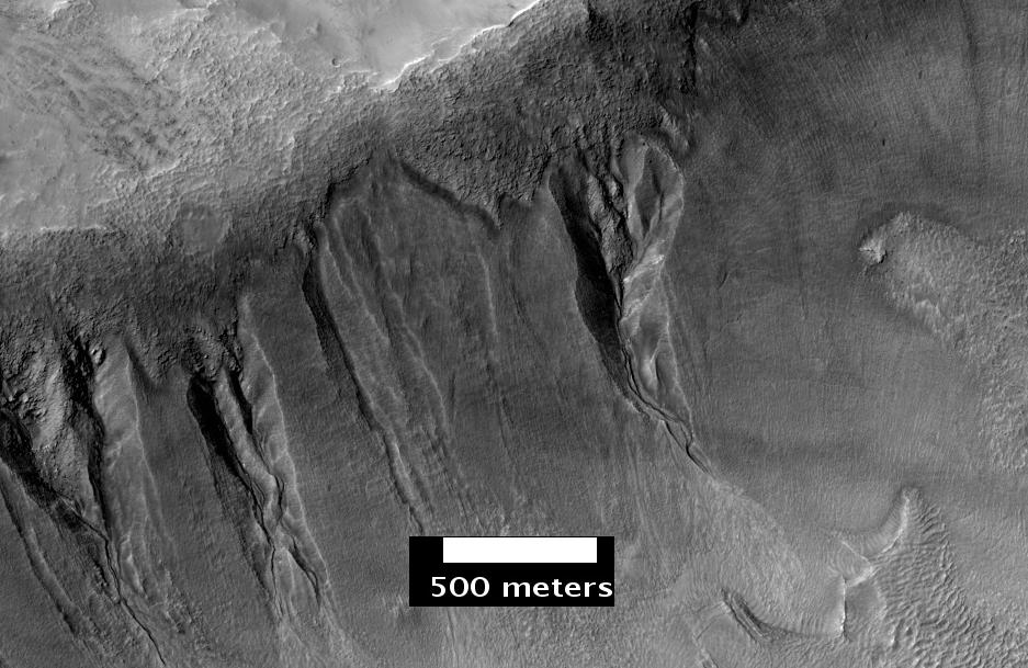 Deep Gullies, as seen by hirise. Location is 39.8 S and 212.2 E.